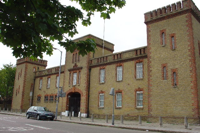 The Old East Surrey Barracks. This building in King's Road is the entrance to the old East Surrey Barracks. Most of the land is now a housing estate